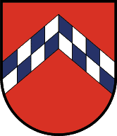 Source: "Fahnen-Gärtner GmbH, Mittersill" This file depicts a coat of arms. The composition of coats of arms are generally public domain with respect to copyright laws, and may be reproduced freely. This corresponds to the international traditional usage, and is explicitly stated in some national copyright laws. Some compositions, of more recent origin, may be copyrighted. This is not a valid license as such, being a "public domain" statement for the coat of arms definition only. It must be completed with the copyright tag associated to the picture creation. See Commons:Coats of arms for further information. Please note that this applies only to the coat of arms definition (composition / description). The representation of a coat of arms is an artistic creation, subject as such to copyright laws. Restriction of use - Legal notice: Most of the time, the usage of coats of arms is governed by legal restrictions, independent of the status of the depiction shown here. A coat of arms represents its owner. Though it can be freely represented, it cannot be appropriated, or used in such a way as to create a confusion with or a prejudice to its owner. Usage on Commons: Please provide licence information for the coat of arm representation, information for the author of the picture, and the source if not self-made work. This image is in the public domain according to Austrian copyright law because it is part of a law, ordinance or official decree issued by an Austrian federal or state authority, or because it is of predominantly official use. (§7 UrhG) To uploader: Please provide where the image was first published and who created it.